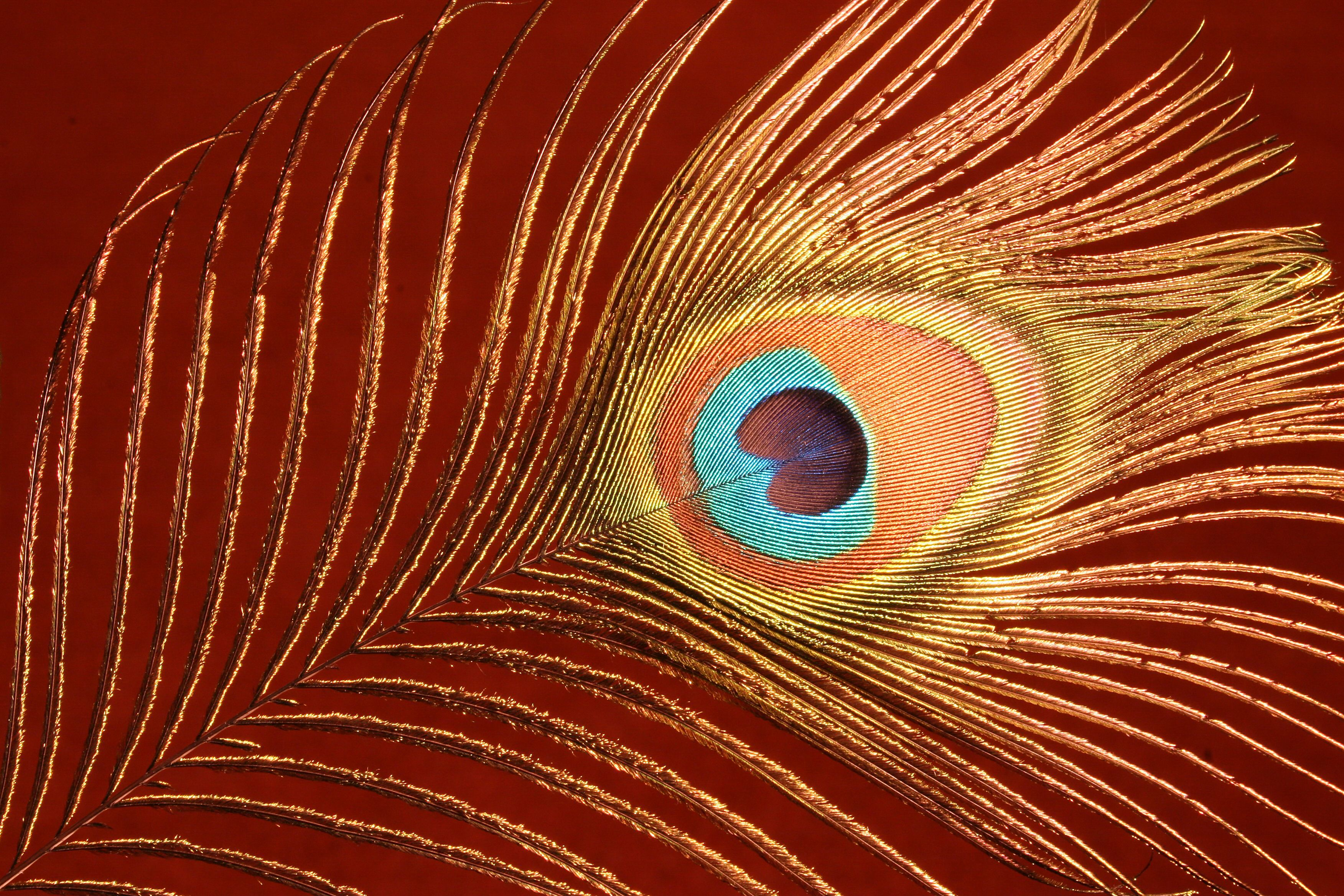 Male Indian Peafowl (Pavo cristatus) tail feather